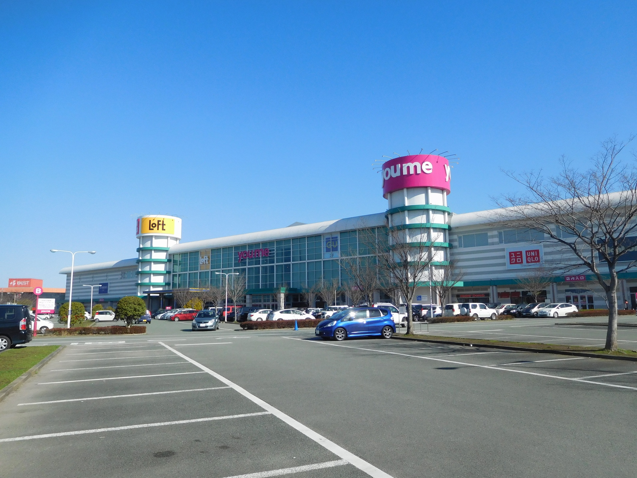 You me Town Hamasen Shopping Center (Minami-ku, Kumamoto City, Japan)